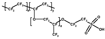 Nafion, a polymeric sulfonic acid useful in fuel cells